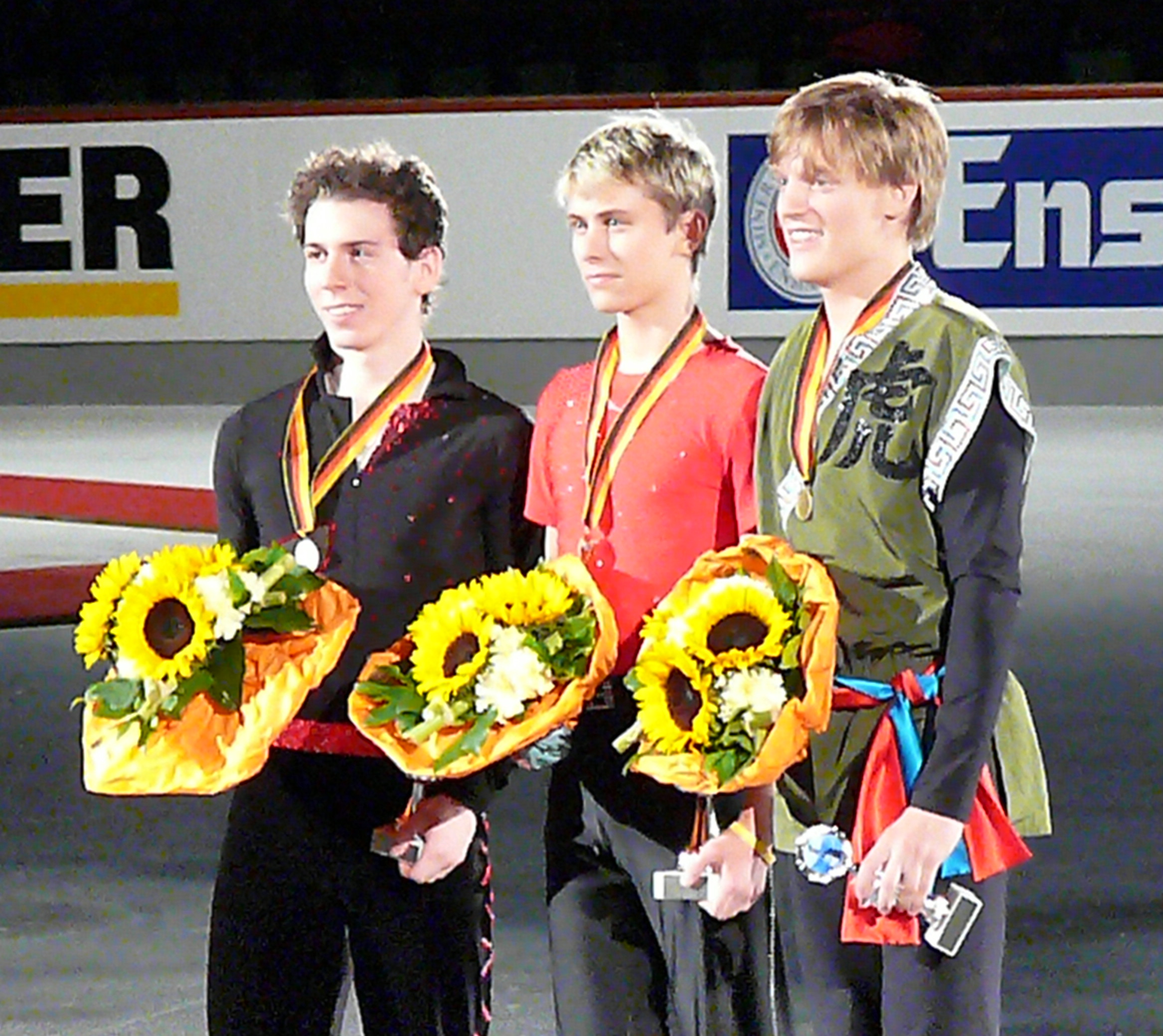 Ceremony Men at the Nebelhorn Trophy 2007 in Oberstdorf/Germany; from left to right: Shaun Rogers (USA), Michal Brezina (CZE), Tomas Verner (CZE)